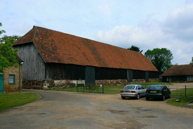 Great Barn, Harmondsworth The 14th or 15th century (sources vary) tithe barn is a Grade 1 listed building.